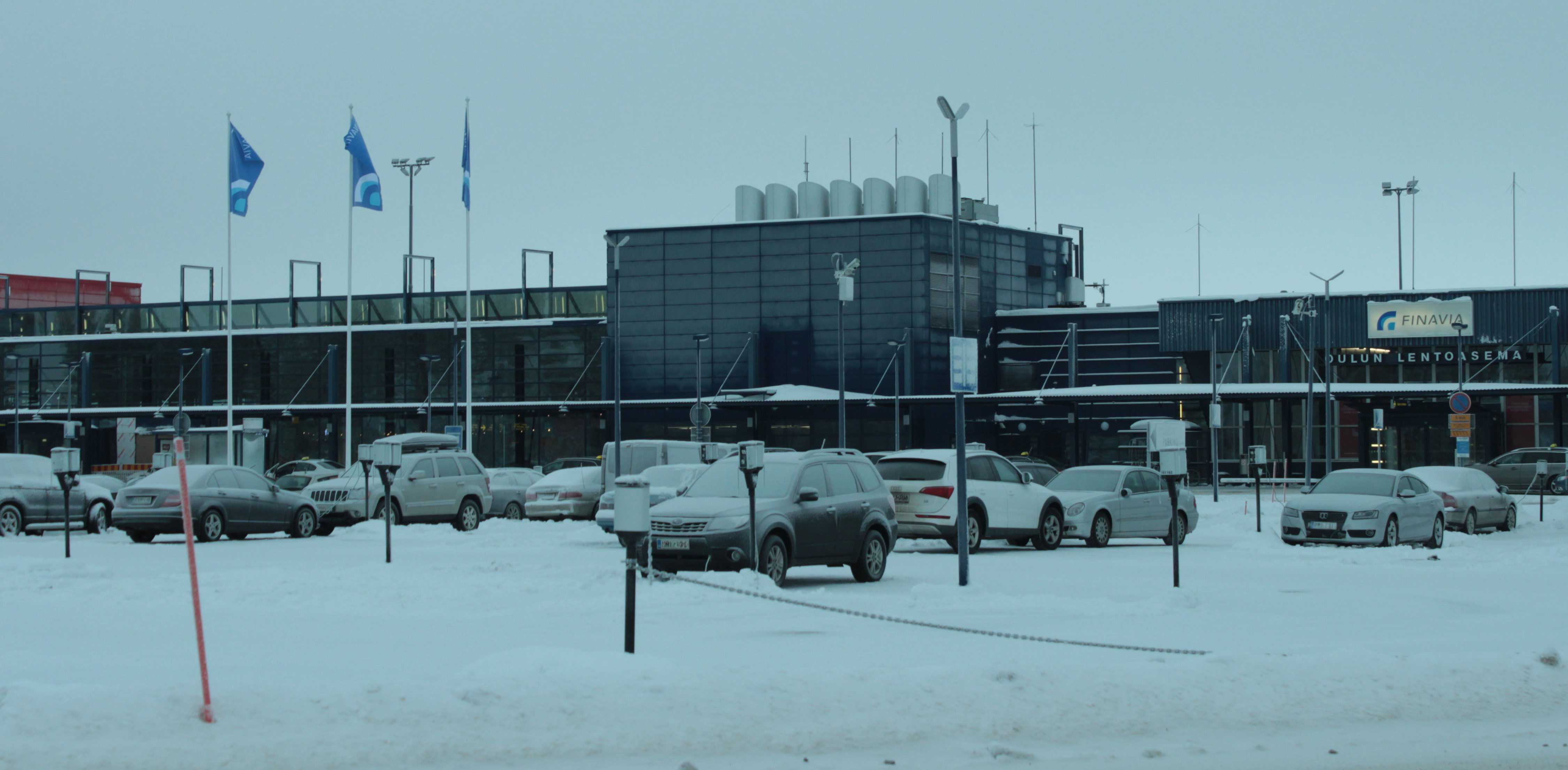 Terminal of Oulu Airport (OUL/EFOU) in Oulu, Finland.